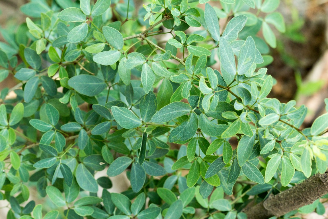 Pithecellobium dulce or Manila tamarind or Madras thorn or seema chintakaya